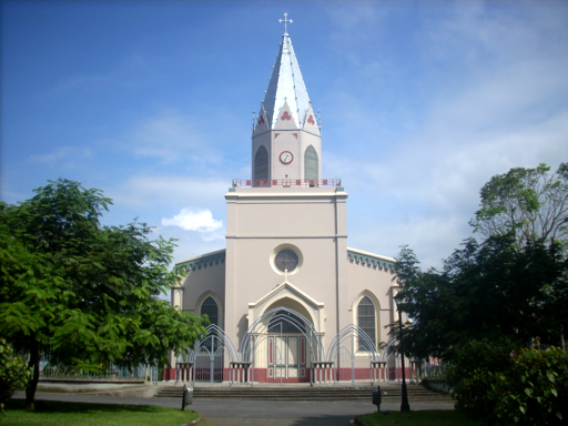 Moravia Canton Church, San José Province, Costa Rica